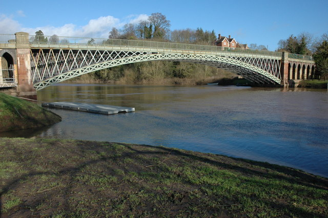 Mythe Bridge Mythe Bridge was opened in 1826 to serve the turnpike road, to a design by engineer, Thomas Telford. The bridge which spans the River Severn near Tewkesbury is still in use today albeit with a weight restriction of 17 tonnes.